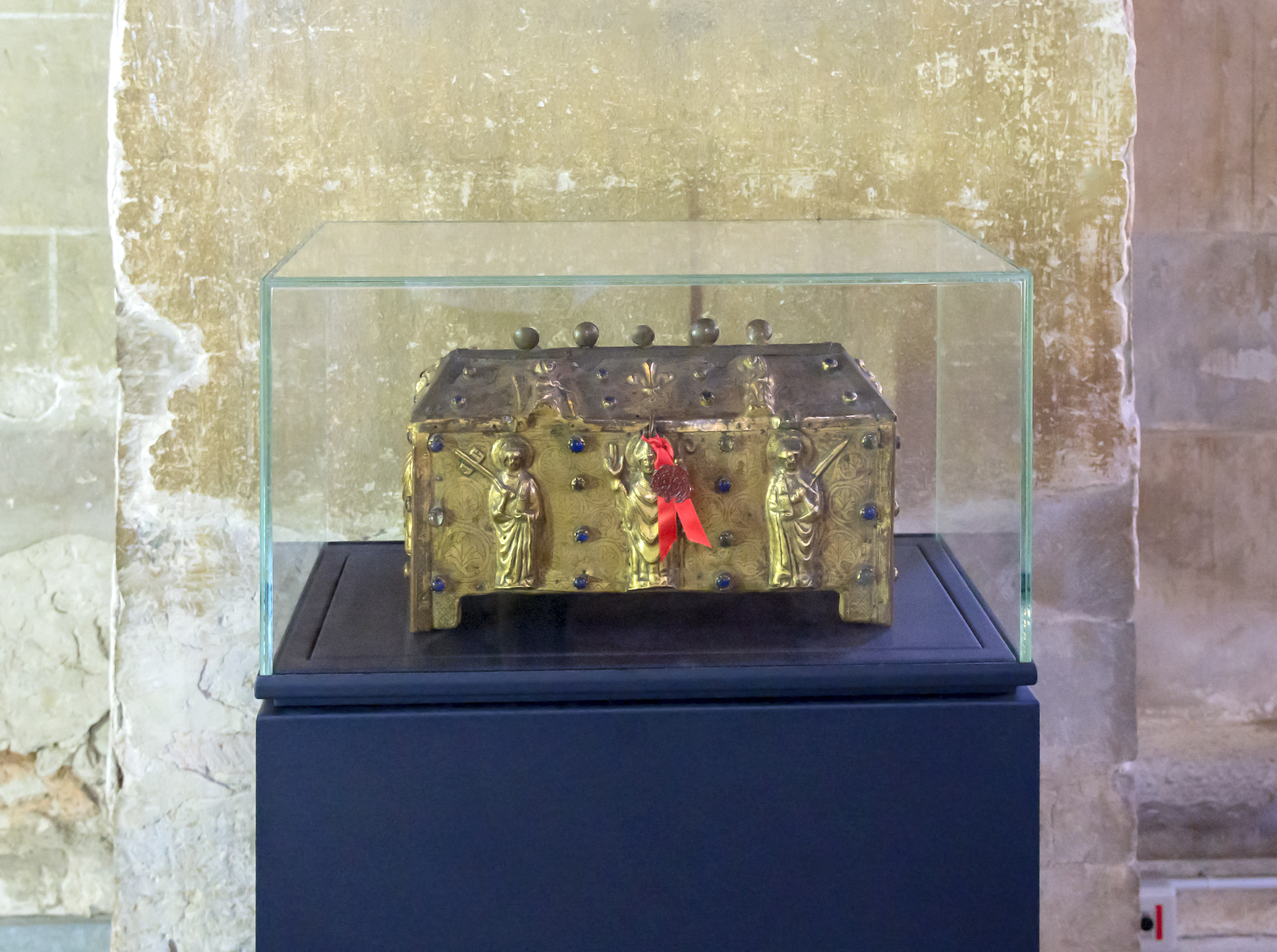 Venerque. Church Saint-Pierre-et-Saint-Phébade. Chasse of St. Phébade, brass inlaid with glass beads, thirteenth.